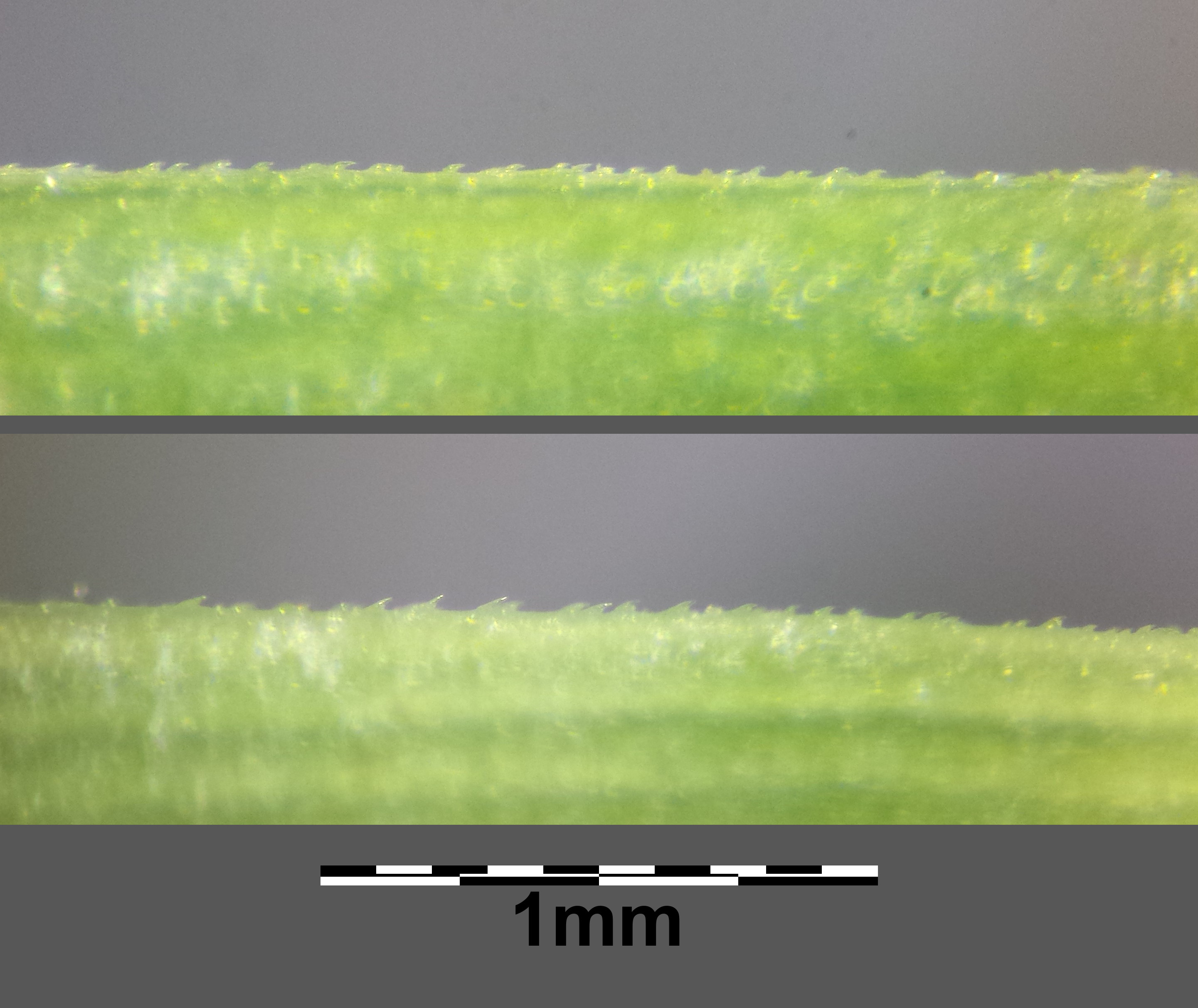 Scabrid bottom side of leaf Taxonym: Brachypodium pinnatum ss Fischer et al. EfÖLS 2008 ISBN 978-3-85474-187-9 Location: Latschenberg near Altenmarkt im Thale, district Hollabrunn, Lower Austria - ca. 330 m a.s.l. Habitat: semi-dry grassland